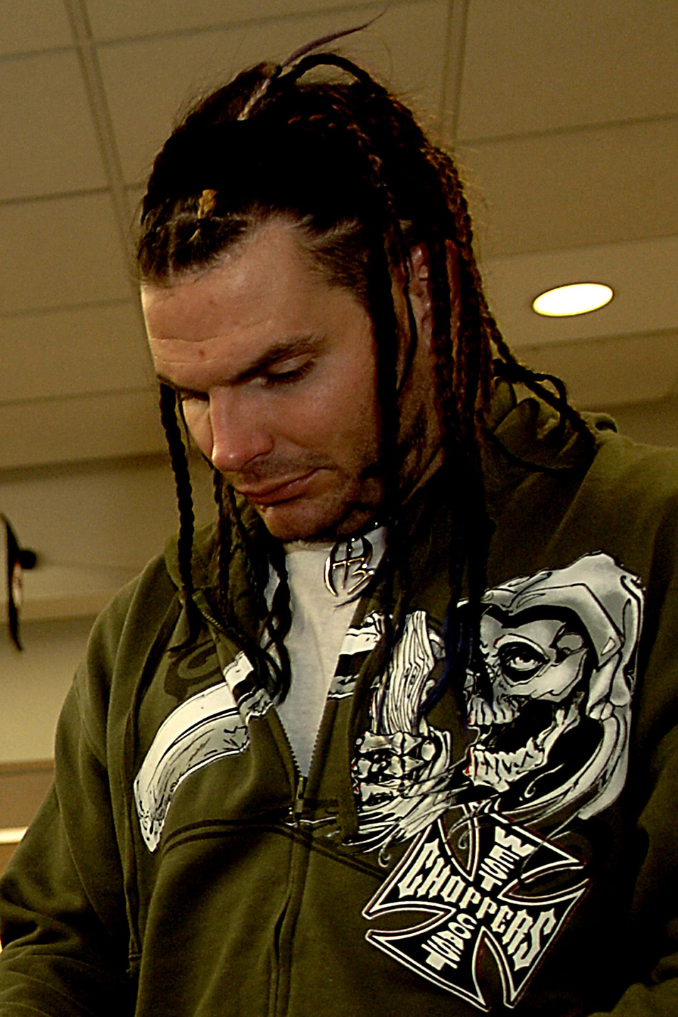 Jeff Hardy, a World Wrestling Entertainment, Inc. star signs a t-shirt for Martin Stockdale at the Charleston Air Force Base, S.C., passenger terminal. The 437th Aerial Port Squadron hosts the WWE stars and crew before a flight to Ramstein Air Base, Germany, Dec. 5, 2006. The WWE is performing for troops deployed overseas during a holiday tour put together by Armed Forces Entertainment. This will be the fourth time the WWE has teamed with Armed Forces Entertainment to entertain deployed troops.